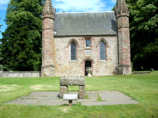 A replica of the Stone of Scone at Scone Palace